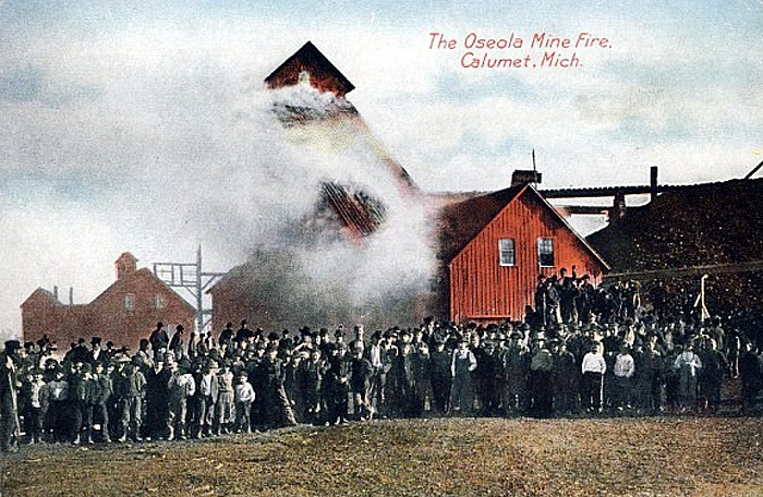 Color image showing the fire at the Osceola Mine that occured on September 7, 1895. Smoke is shown billowing out of the #3 shaft. Thirty people died as a result.